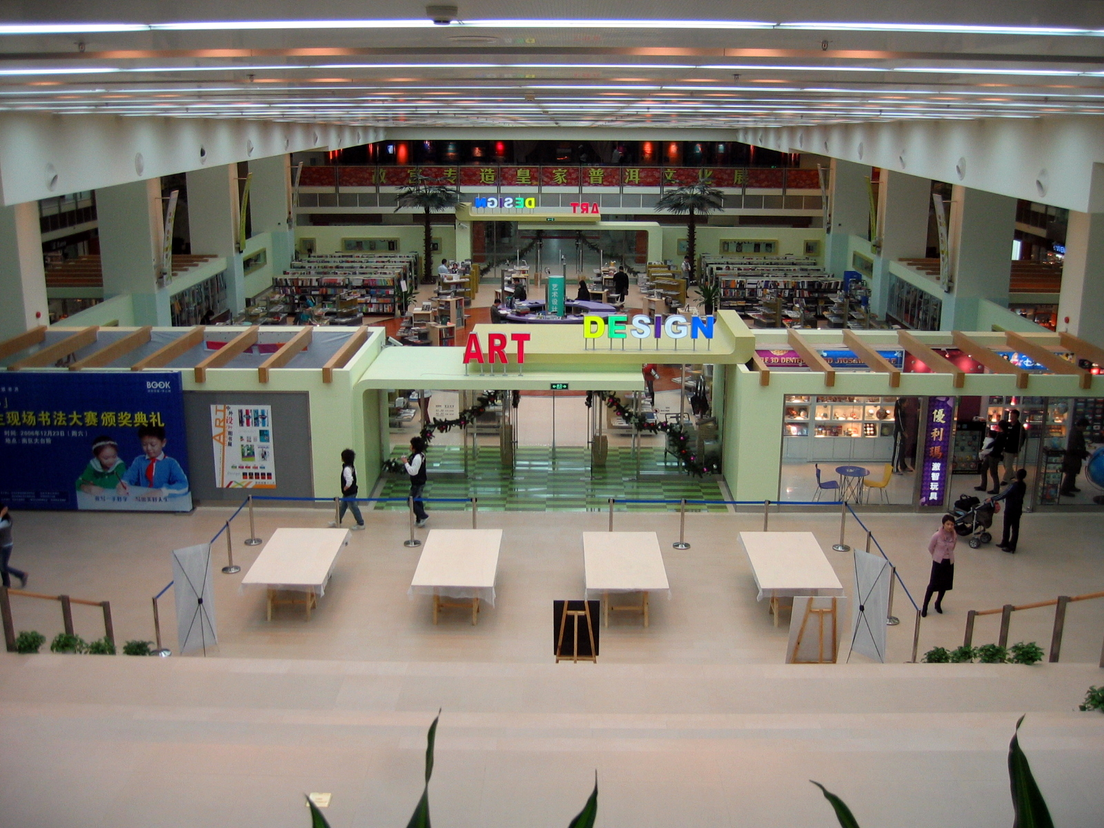 Shenzhen Book City Centre City 深圳書城中心城